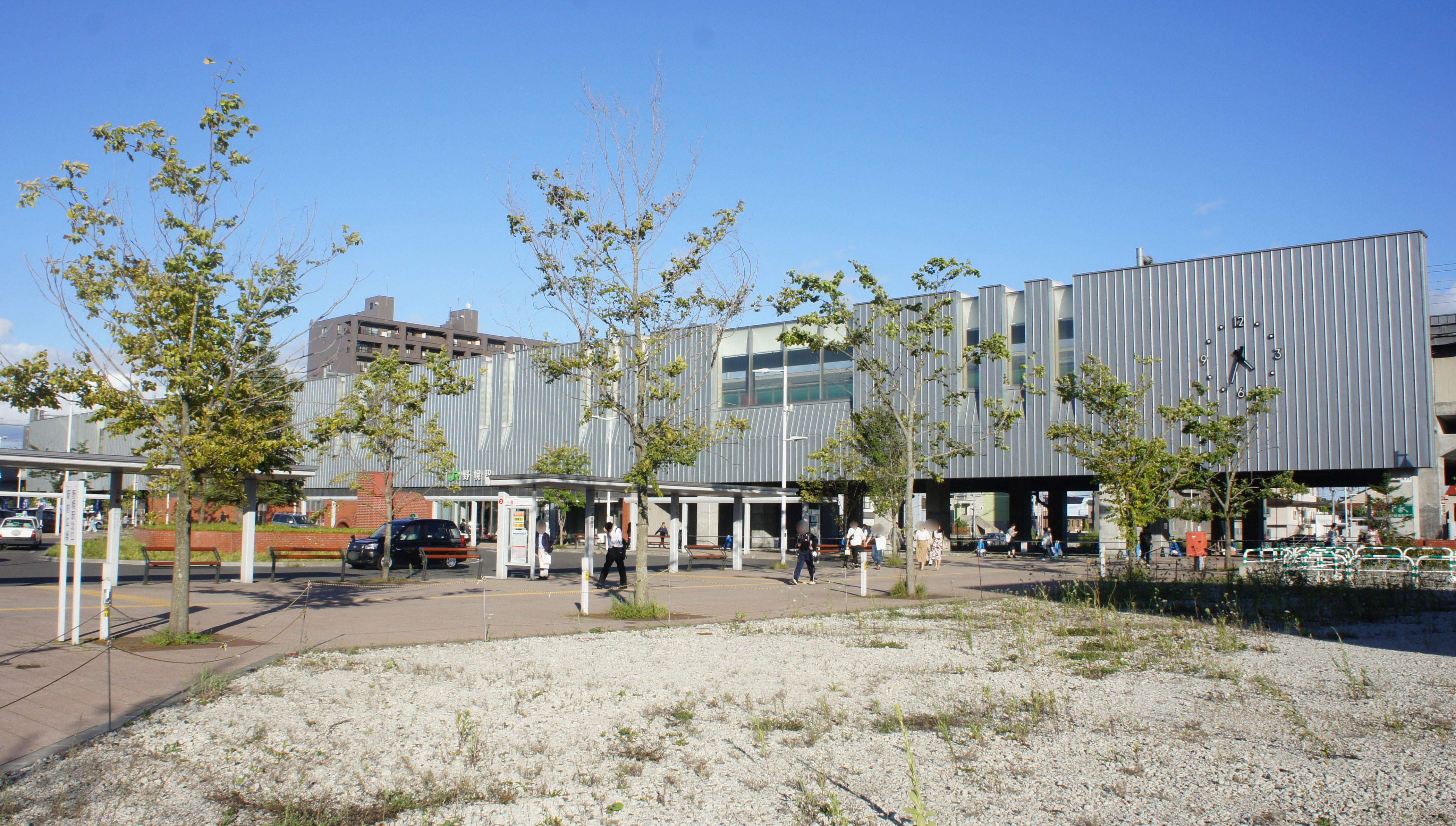 North Exit Station building of JR Hakodate-Main-Line Nopporo Station